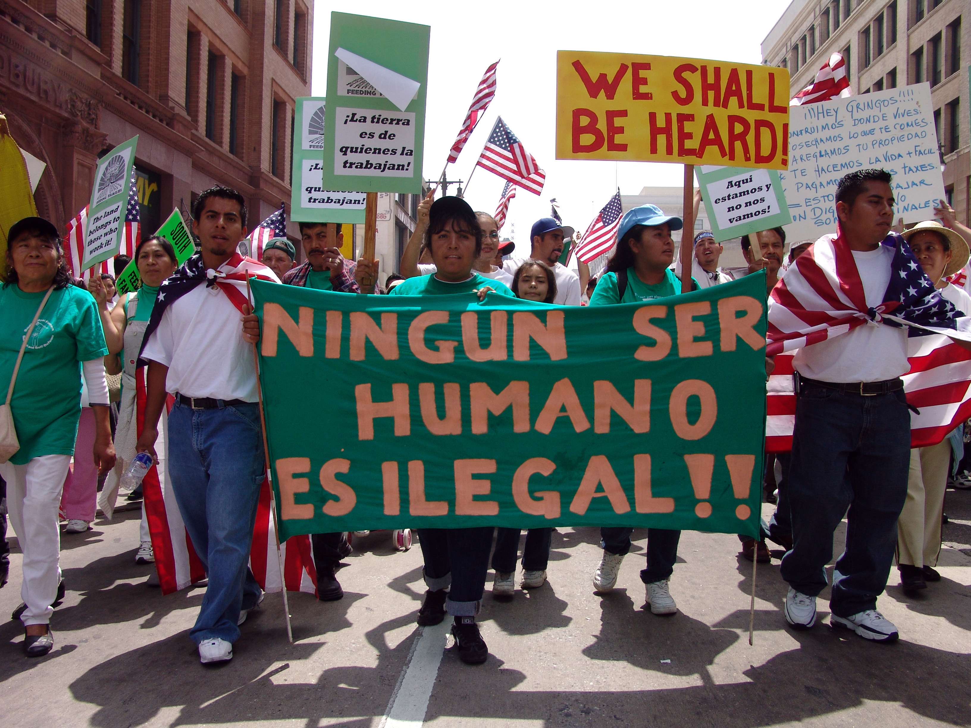 Members of the South Central Farm attending the immigrant rights march for amnesty in downtown Los Angeles California on May Day, 2006. The banner, in Spanish, reads "No human being is illegal".